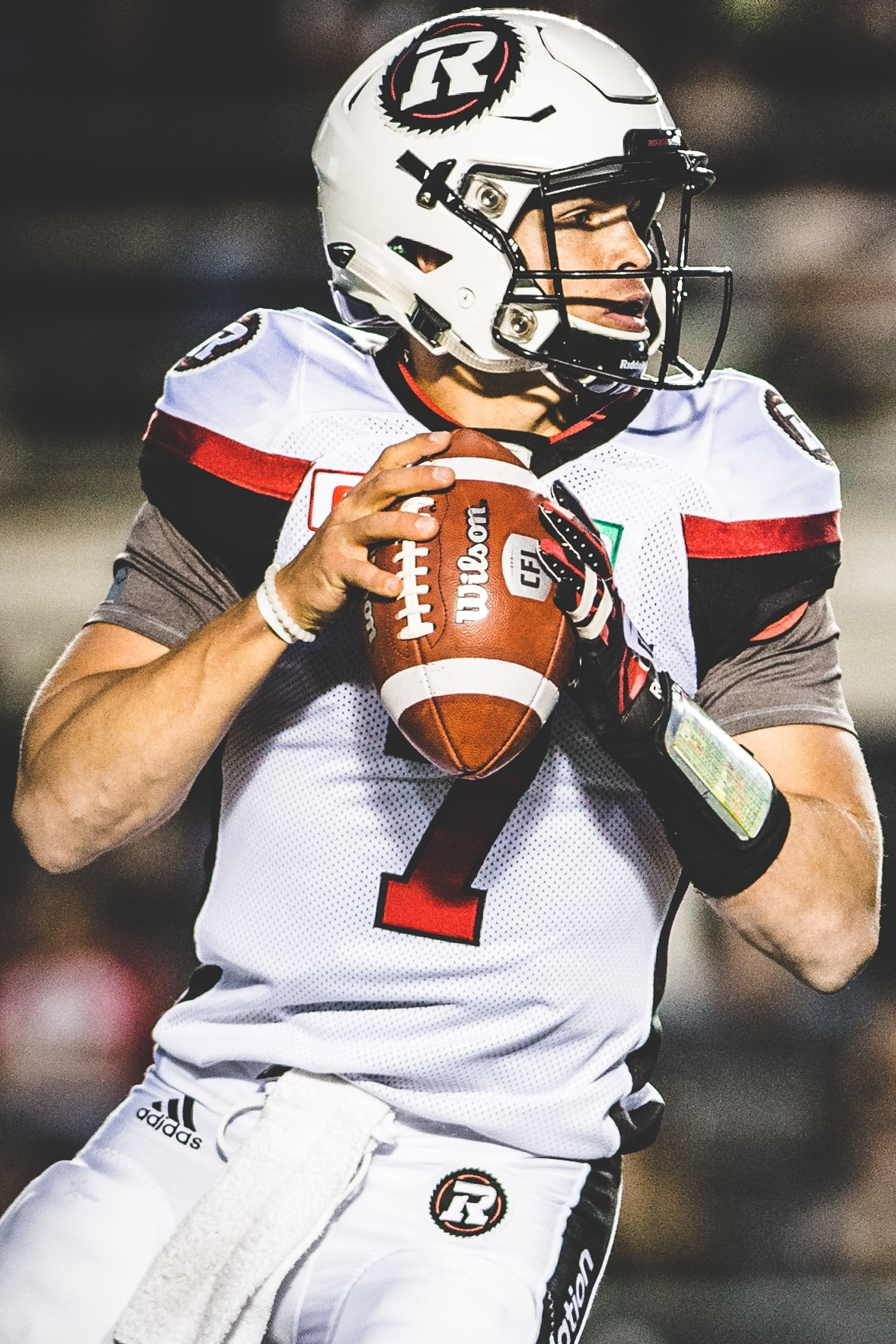 Trevor Harris (7) of the Ottawa REDBLACKS during the pre-season game against the Winnipeg Blue Bombers at TD Place in Ottawa, ON on Monday June 13, 2016. (Photo: Johany Jutras)